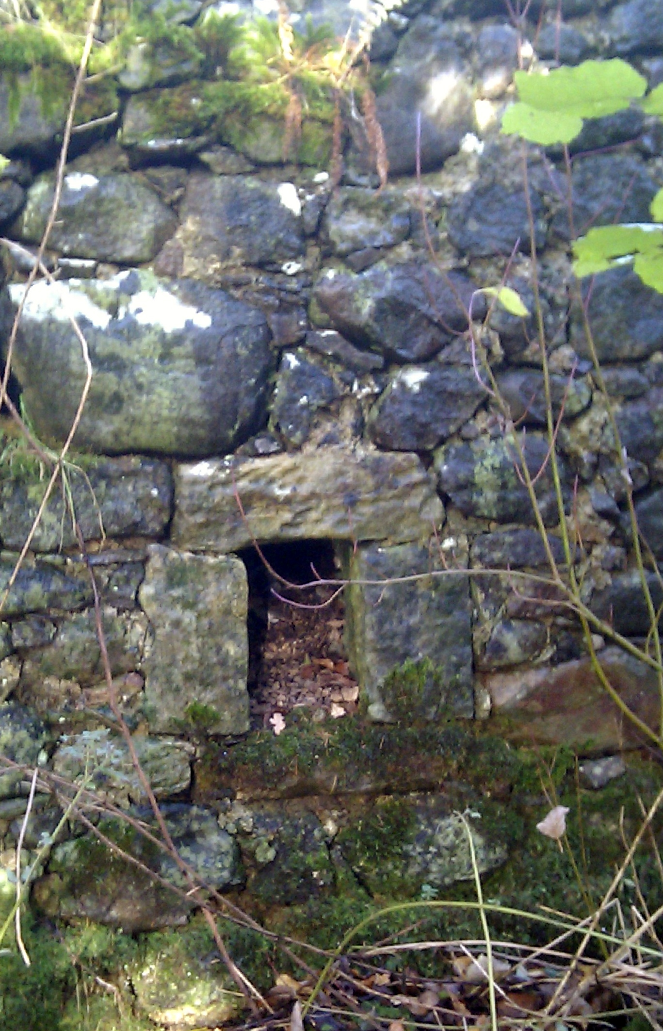 Feature at the ruined building at Town End of Threepwood Farm, Threepwood Road, Beith, North Ayrshire, Scotland.